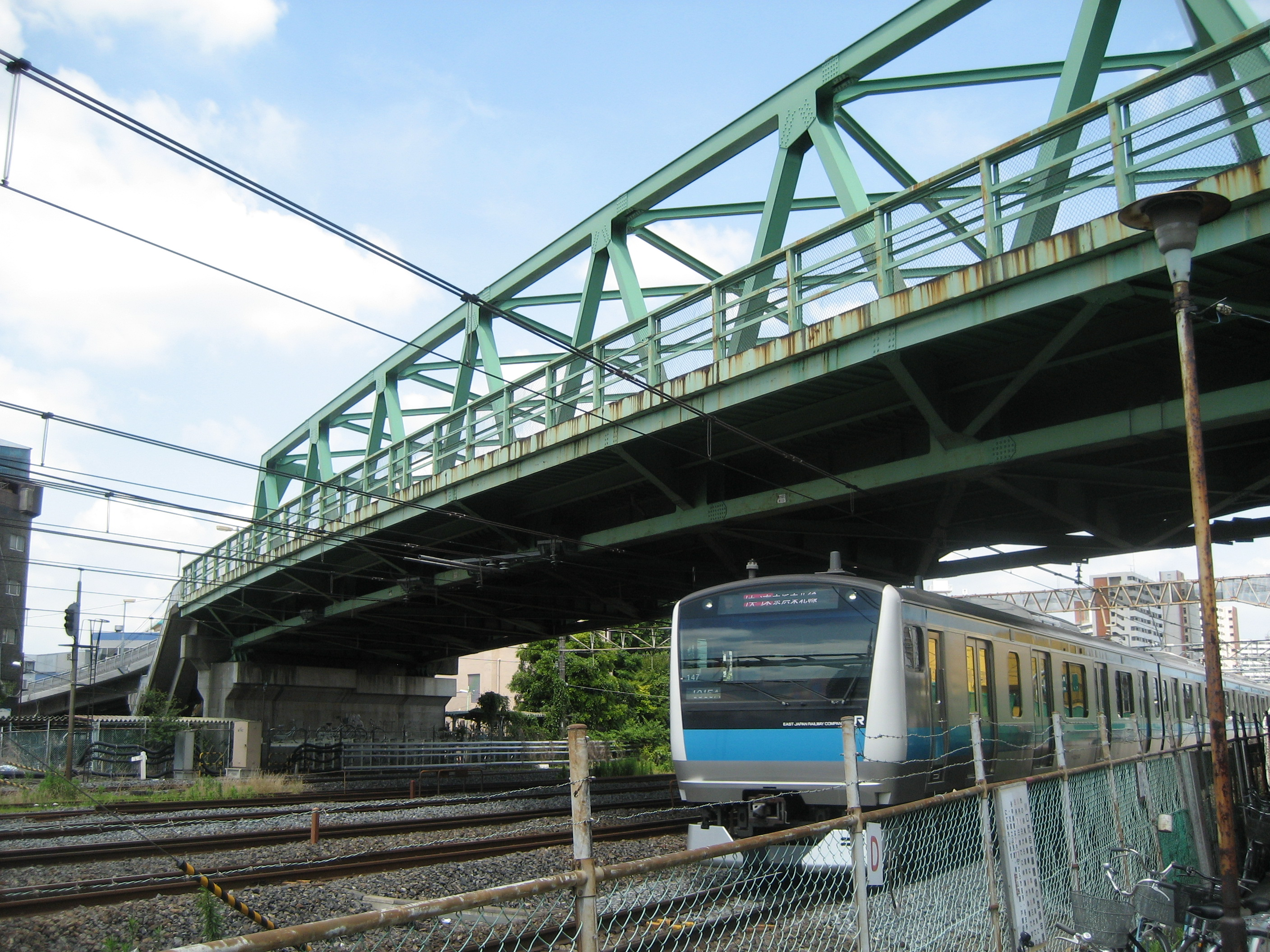 The Warabi Overpass on the Saitama Prefectural Road Route 111 over the JR East Tohoku Main Line